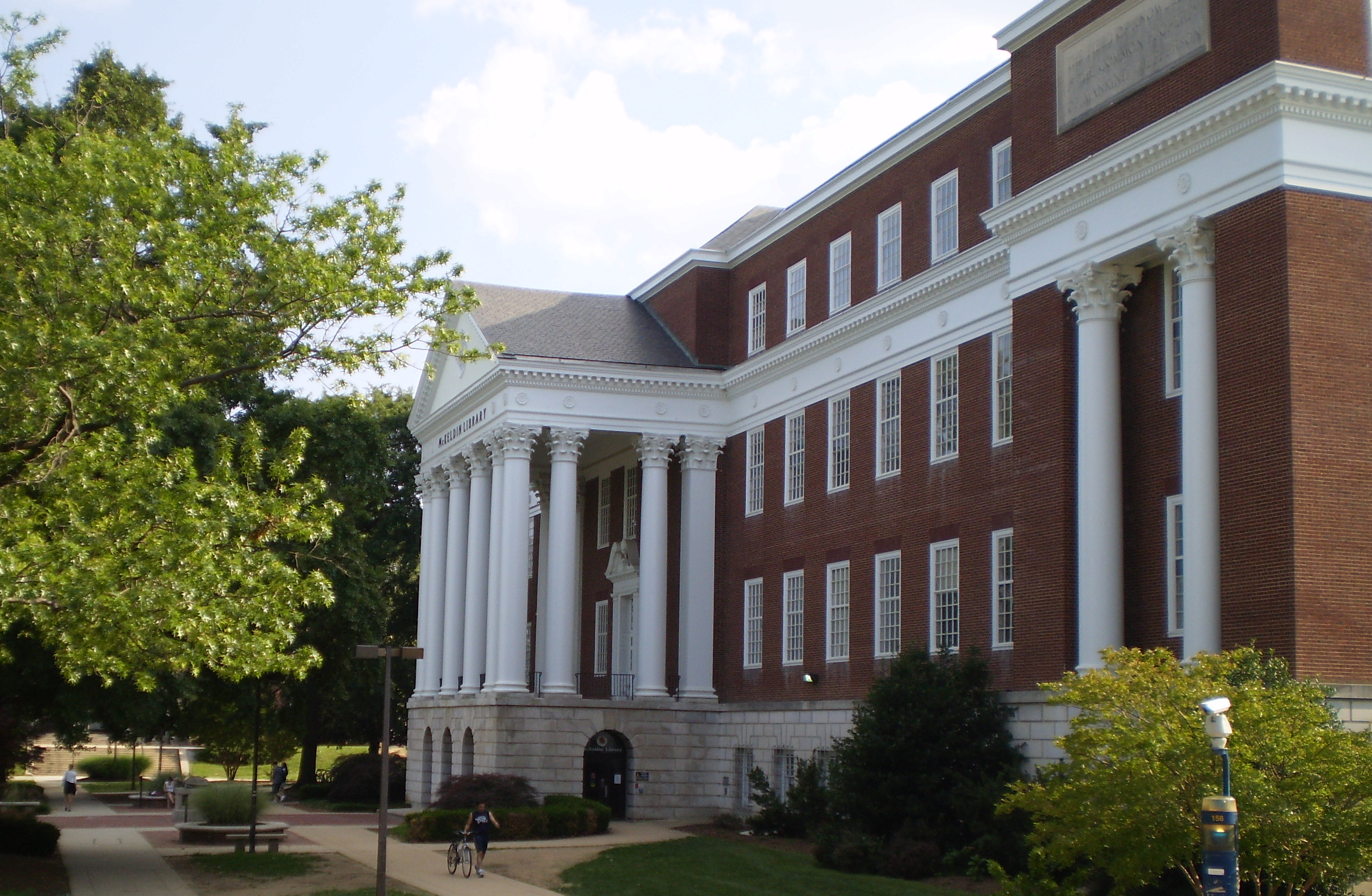 View of McKeldin Library on the campus of the University of Maryland, College Park.